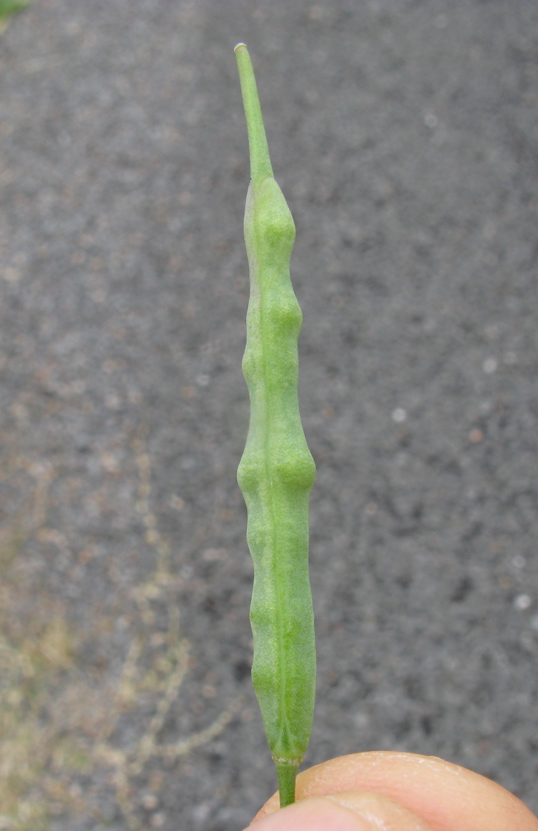 Canola growing in the Merriwa to Denman region in crop and by roadside. Canola growing in the Merriwa to Denman region in crop and by roadside. Flowerheads infested with aphids. Introduced, cool-season, annual or biennial herb to 1.5 m tall, usually with a strong taproot. Stems are erect and scarcely branched. Leaves are grey-green. Lower leaves are stalked, lyrate-pinnatifid and 5–20 cm long; nerves sparingly bristly. Upper leaves are stem-clasping, sessile and oblong-lanceolate. Flowerheads are racemes. Flowers are bright yellow, with 4 petals and 6 stamens. Fruit are siliquas, obliquely erect, 5–10 cm long, obscurely 4-angled, with a 5–20 mm long, tapering beak. Flowering is from winter to spring.